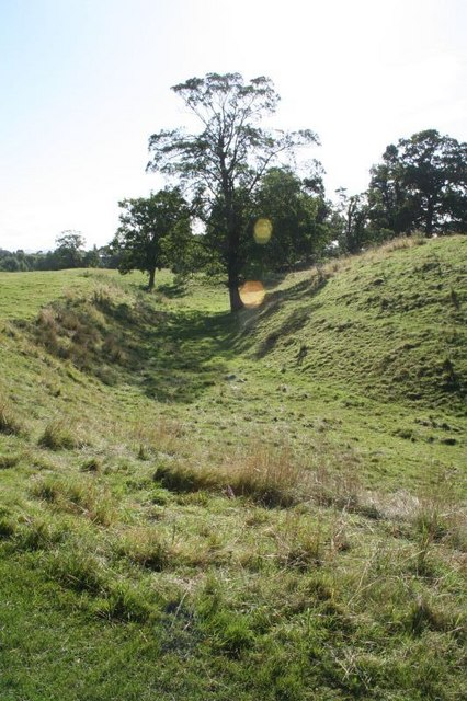 Wallingford castle 14 A tree grows in the old moat of the castle. The slope to the right is steep when you go to climb it.